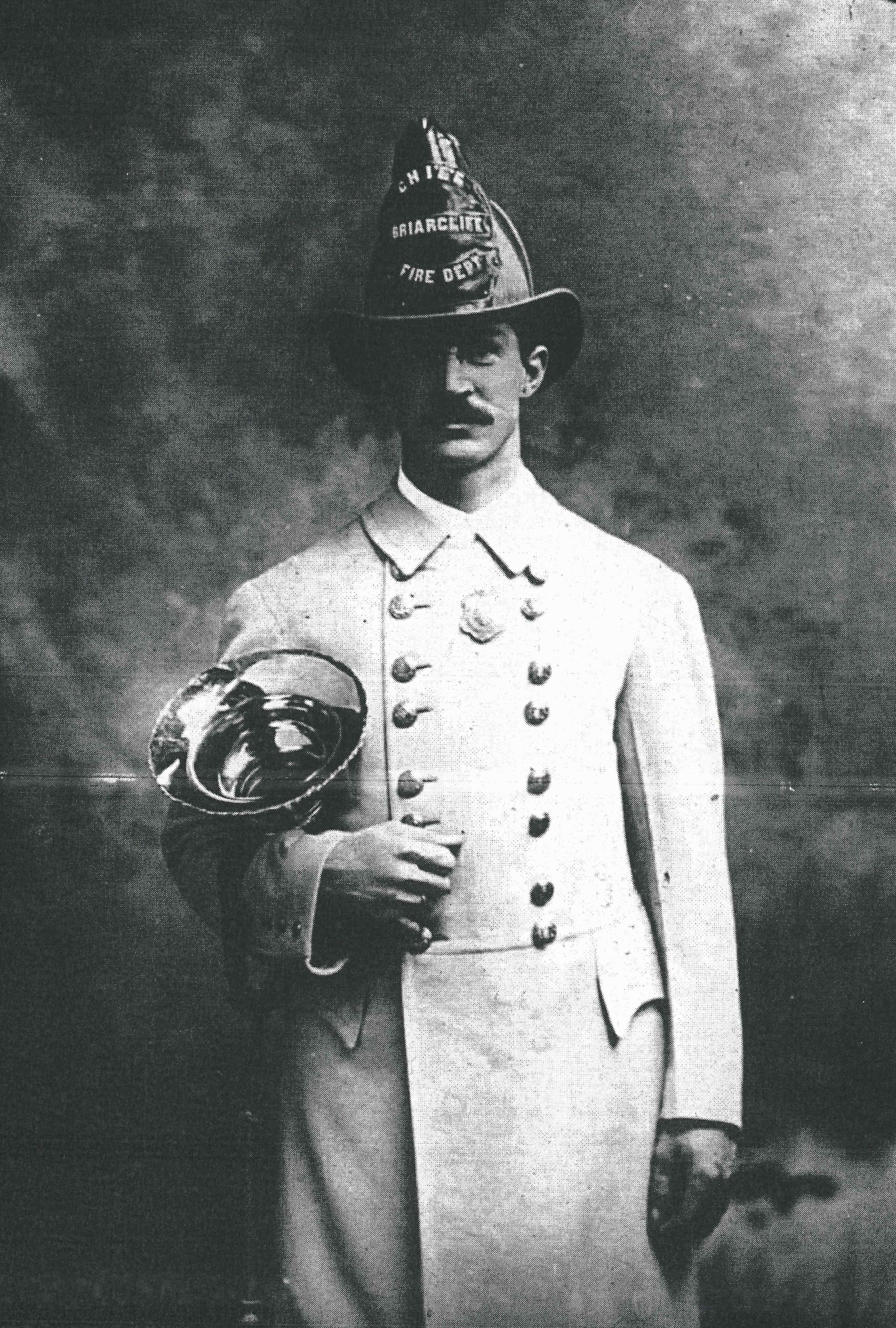 Fred Messinger, Fire Chief of the Briarcliff Manor Fire Department in Briarcliff Manor, New York.